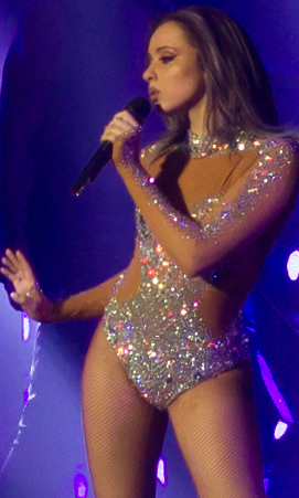 Little Mix